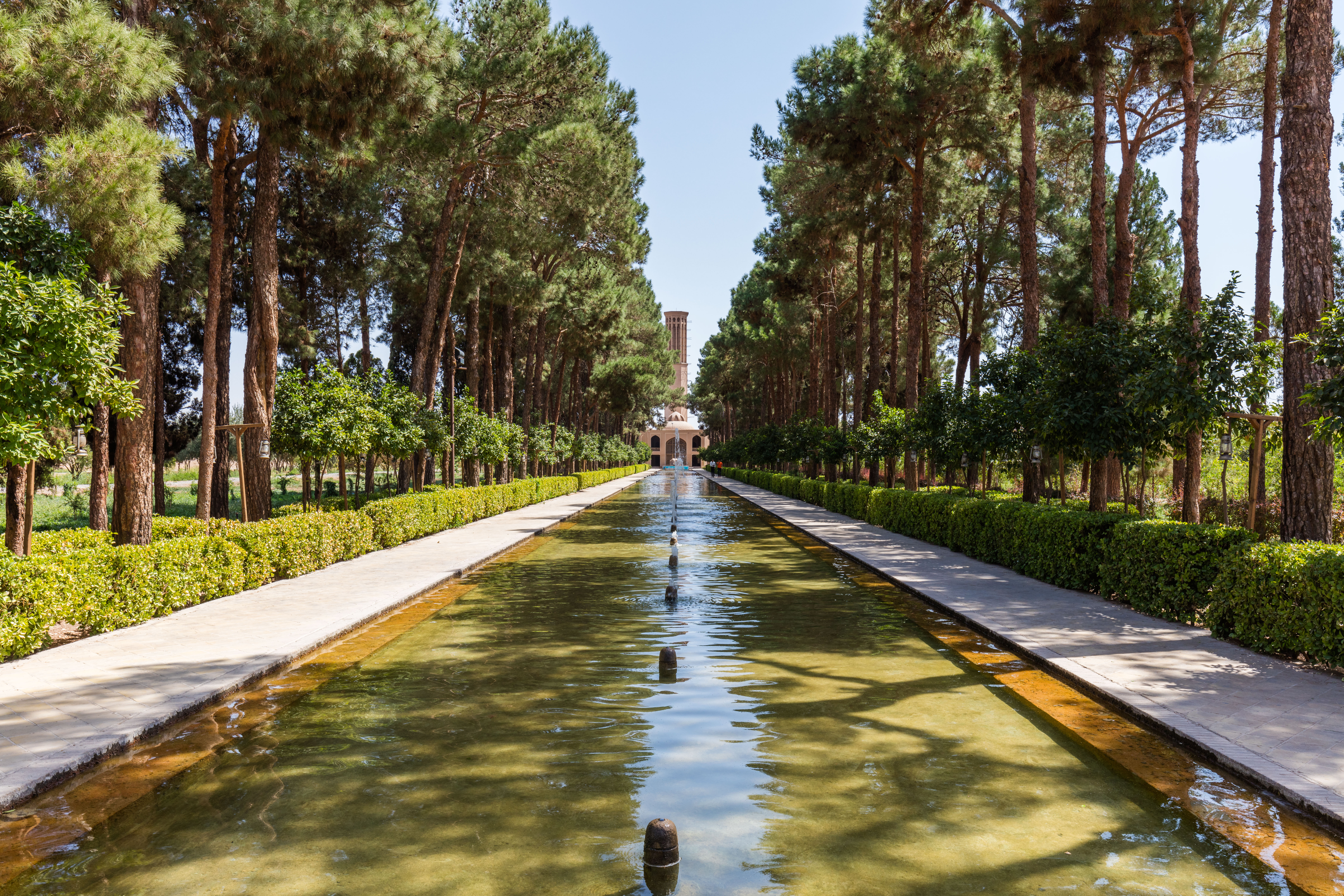 Dolat-Abad Garden, Yazd, Iran